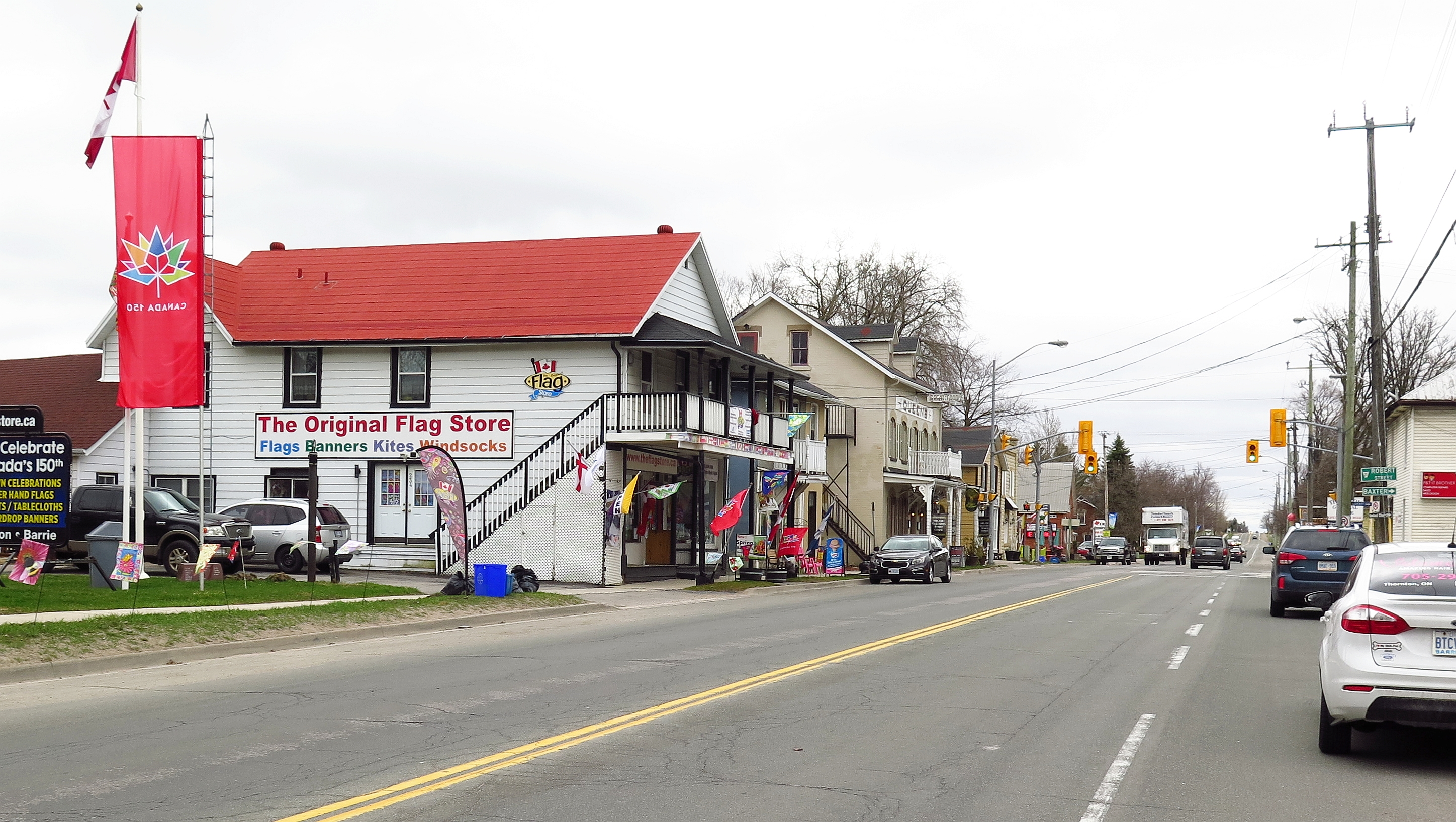 Looking south on Barrie Street in Thornton, Ontario.